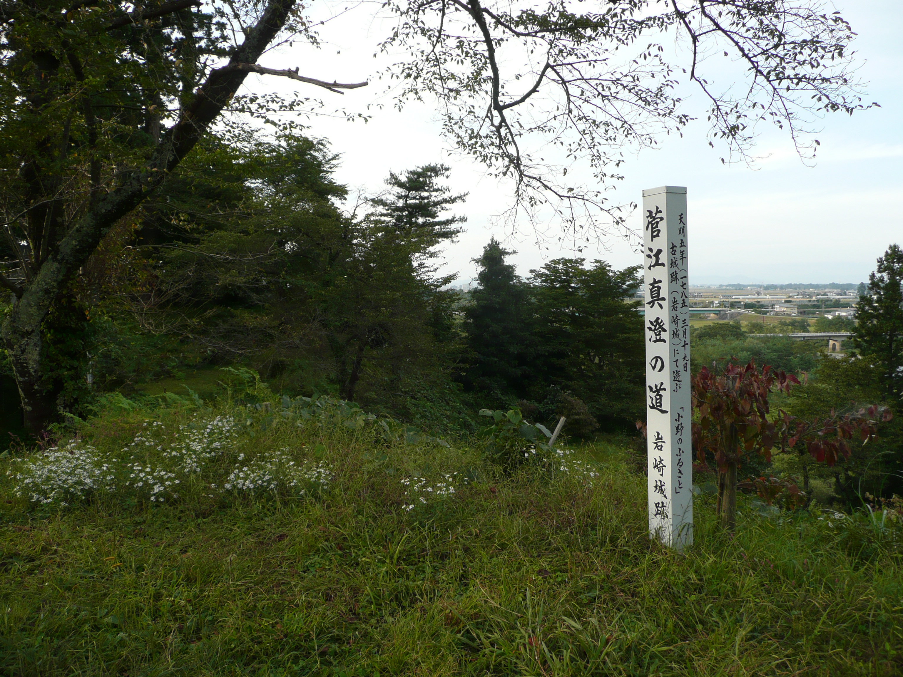 岩崎城本丸にある碑